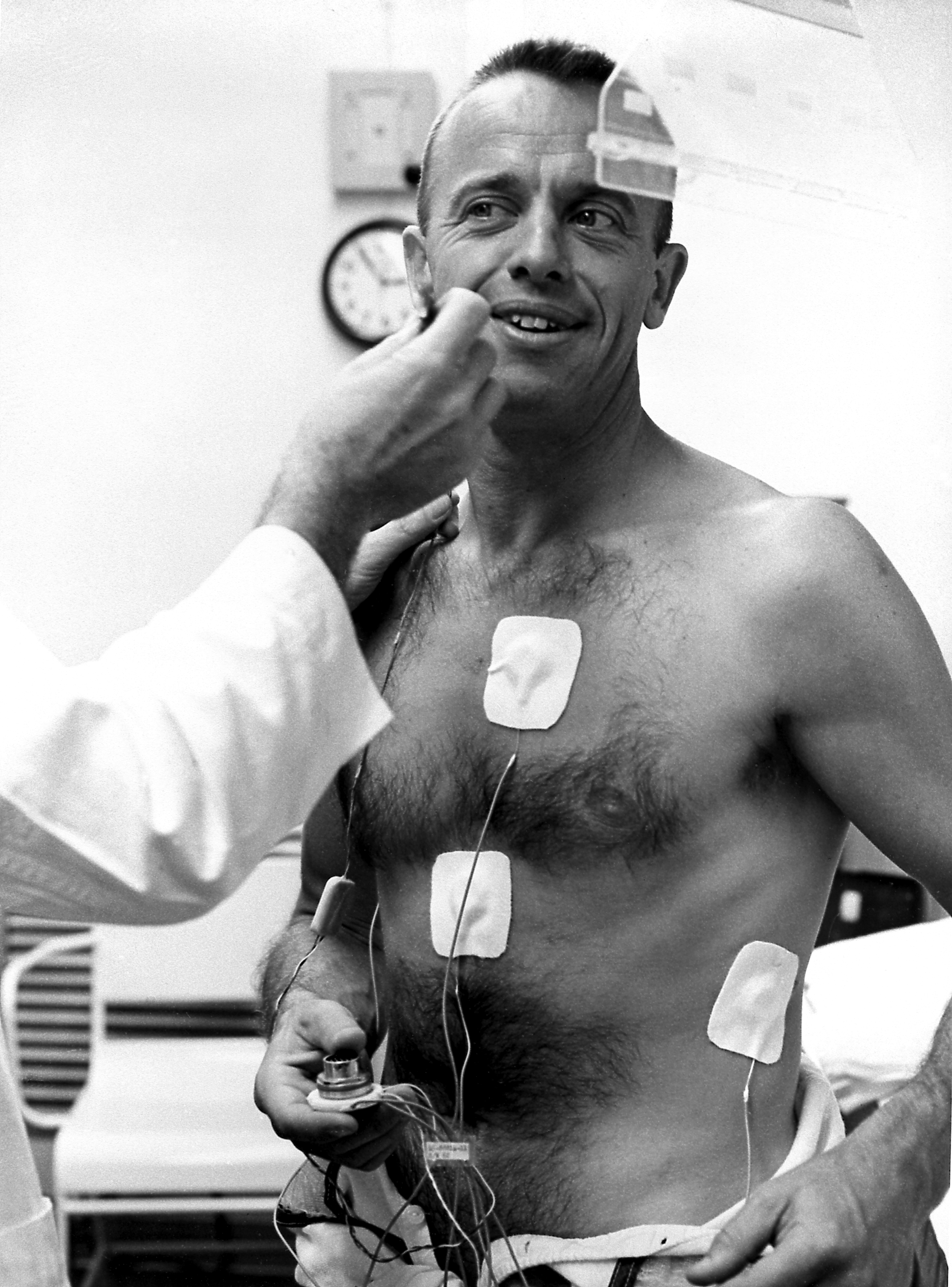 Astronaut Alan Shepard underwent a physical examination prior to the first manned suborbital flight. Freedom 7, carrying astronaut Shepard and boosted by the Mercury-Redstone launch vehicle, lifted off on May 5, 1961. Astronaut Shepard became the first American in space.